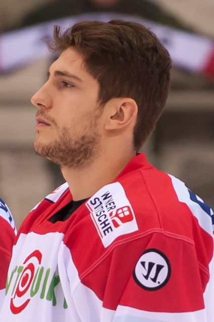 Euro Ice Hockey Challenge Vienna, February 7, 2015, Austria vs. Slovakia